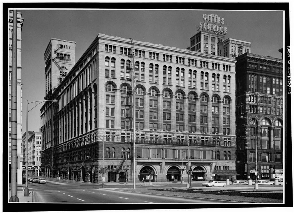 Auditorium Building, Chicago. Exterior from southeast.